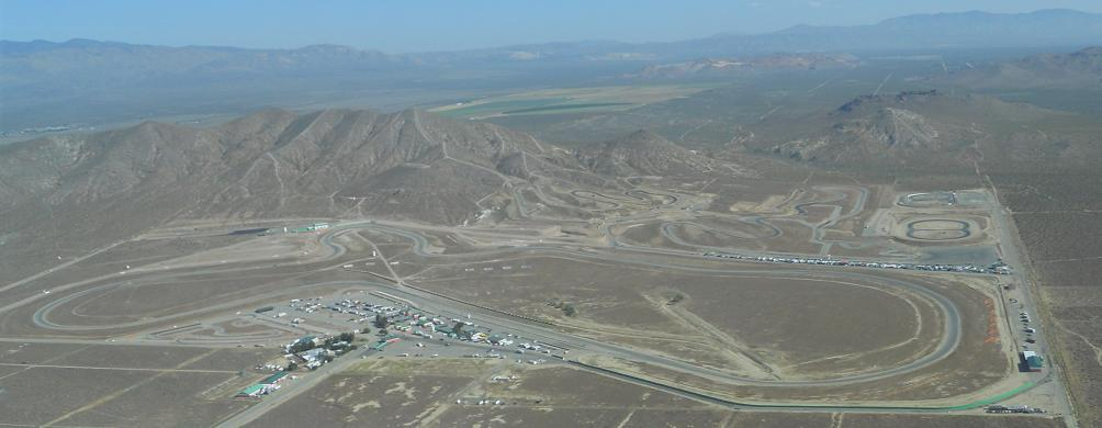 Willow Springs International Motorsports Park from the air. Taken May 15, 2010